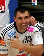 Croatian Handball player Renato Sulić at Sparkassen Cup 2013